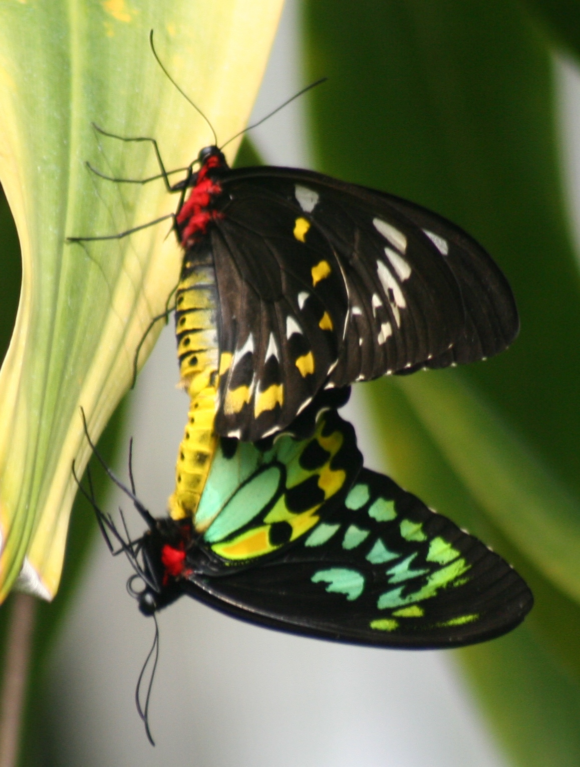 Pair of Cairns Birdwing Butterflys Kuranda Butterfly Sanctuary